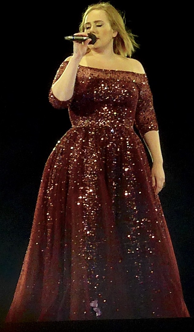 Adele in ADELAIDE, AUSTRALIA during her first Down Under Tour